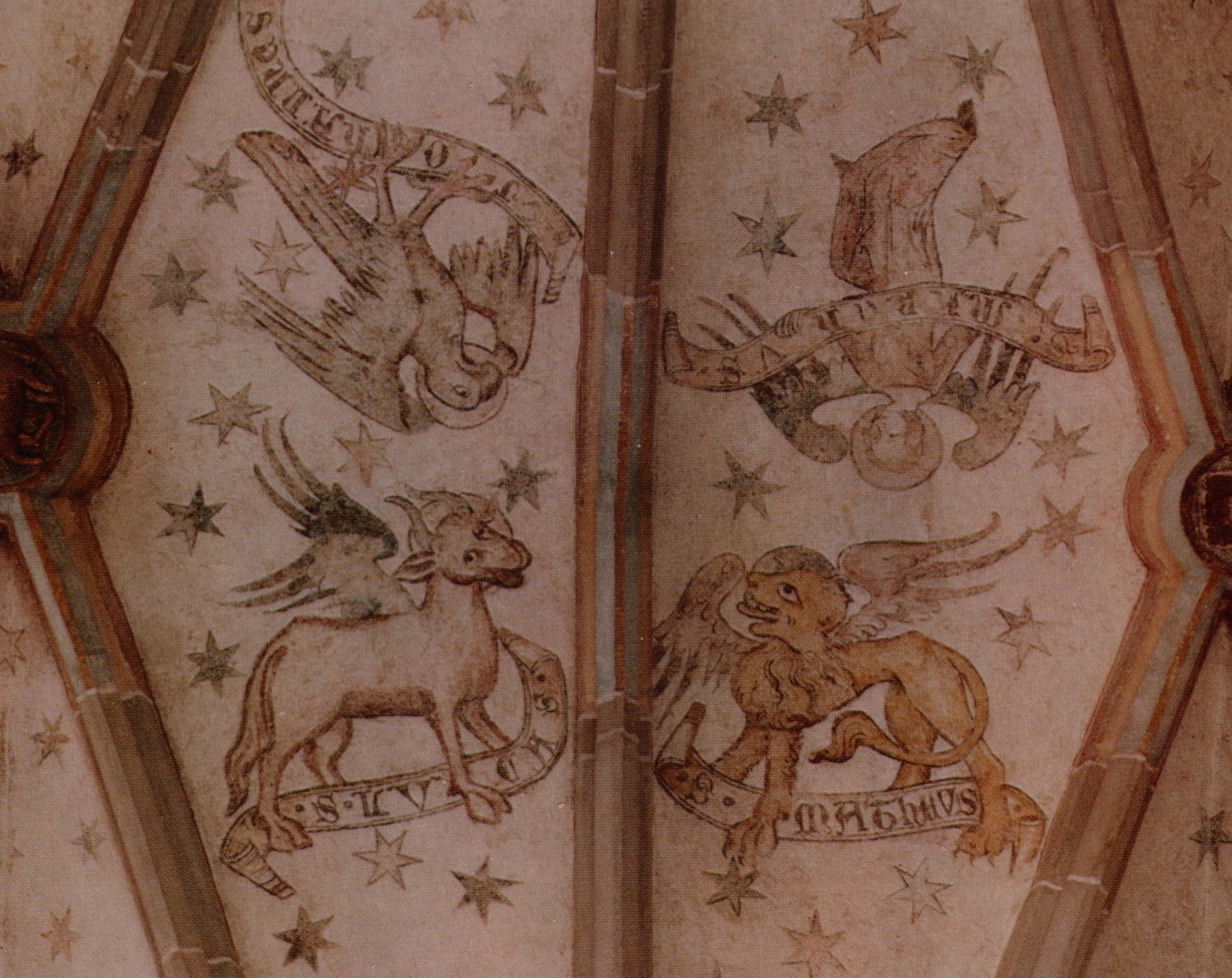 The four Evangelists on the 13th-c. ceiling of the choir in Stiftskirche St. Moriz in Rottenburg am Neckar. Mark and Matthew's symbol animals have been confused by the painter.